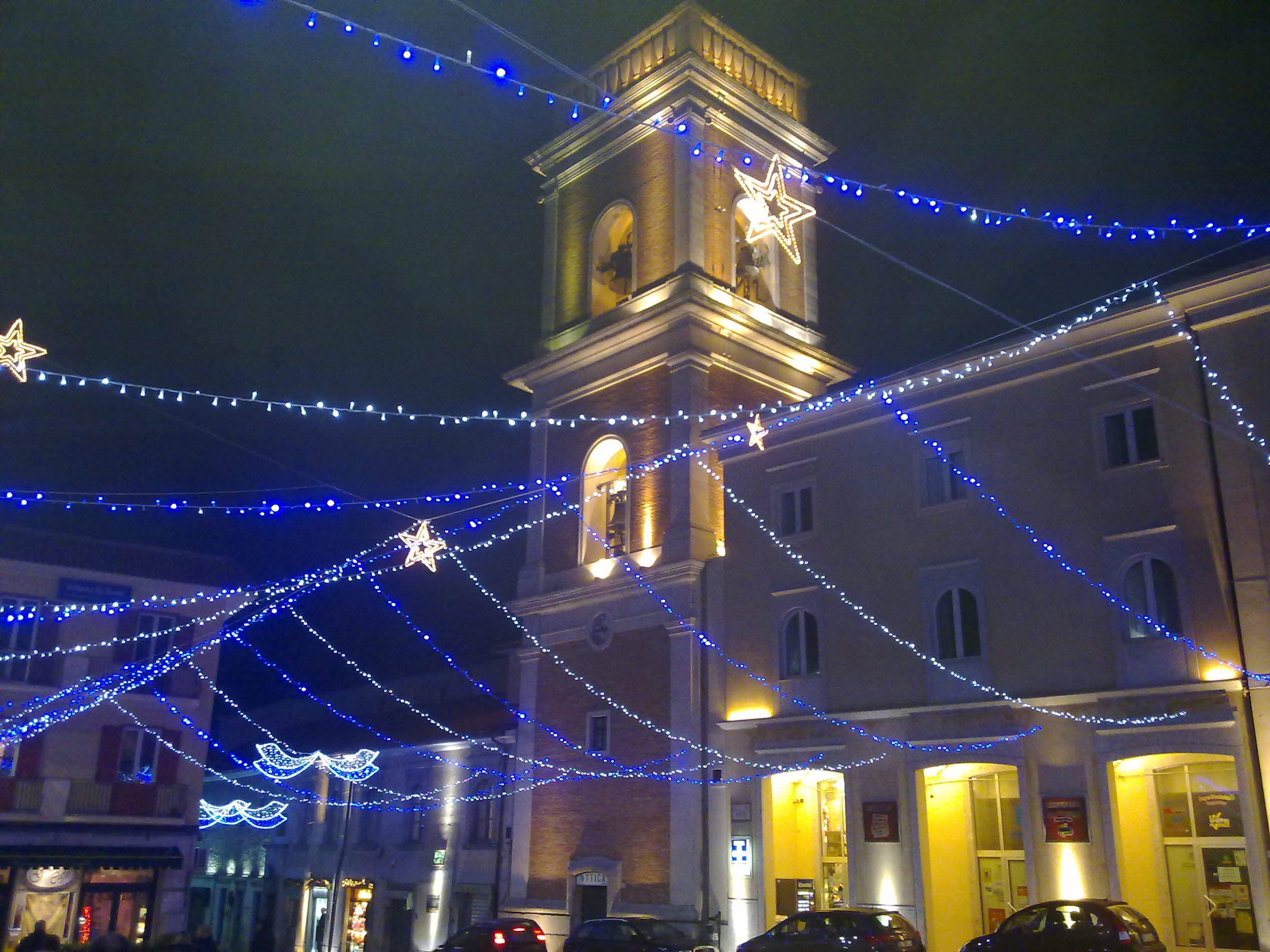 The bell tower of Ariano Irpino Cathedral